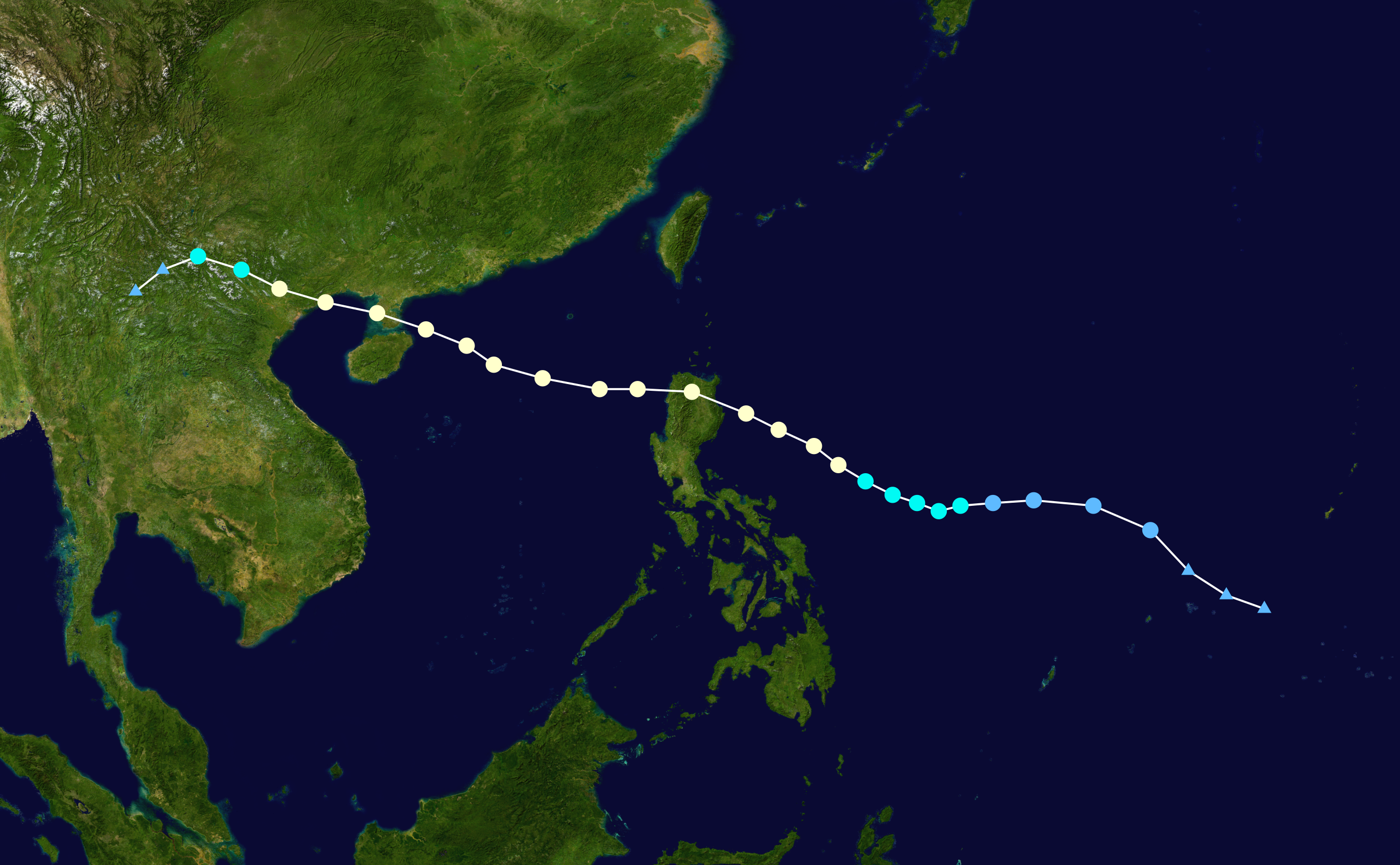 Track map of Typhoon Kalmaegi of the 2014 Pacific typhoon season. The points show the location of the storm at 6-hour intervals. The colour represents the storm's maximum sustained wind speeds as classified in the Saffir–Simpson scale (see below), and the shape of the data points represent the nature of the storm, according to the legend below. Saffir–Simpson scale Tropical depression≤38 mph≤62 km/h Category 3111–129 mph178–208 km/h Tropical storm39–73 mph63–118 km/h Category 4130–156 mph209–251 km/h Category 174–95 mph119–153 km/h Category 5≥157 mph≥252 km/h Category 296–110 mph154–177 km/h Unknown Storm type Tropical cyclone Subtropical cyclone Extratropical cyclone / Remnant low / Tropical disturbance / Monsoon depression